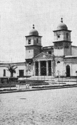 Cathedral "Nuestra Señora de la Merced" in Chascomús, Buenos Aires Province. The church was officially inaugurated in 1847.